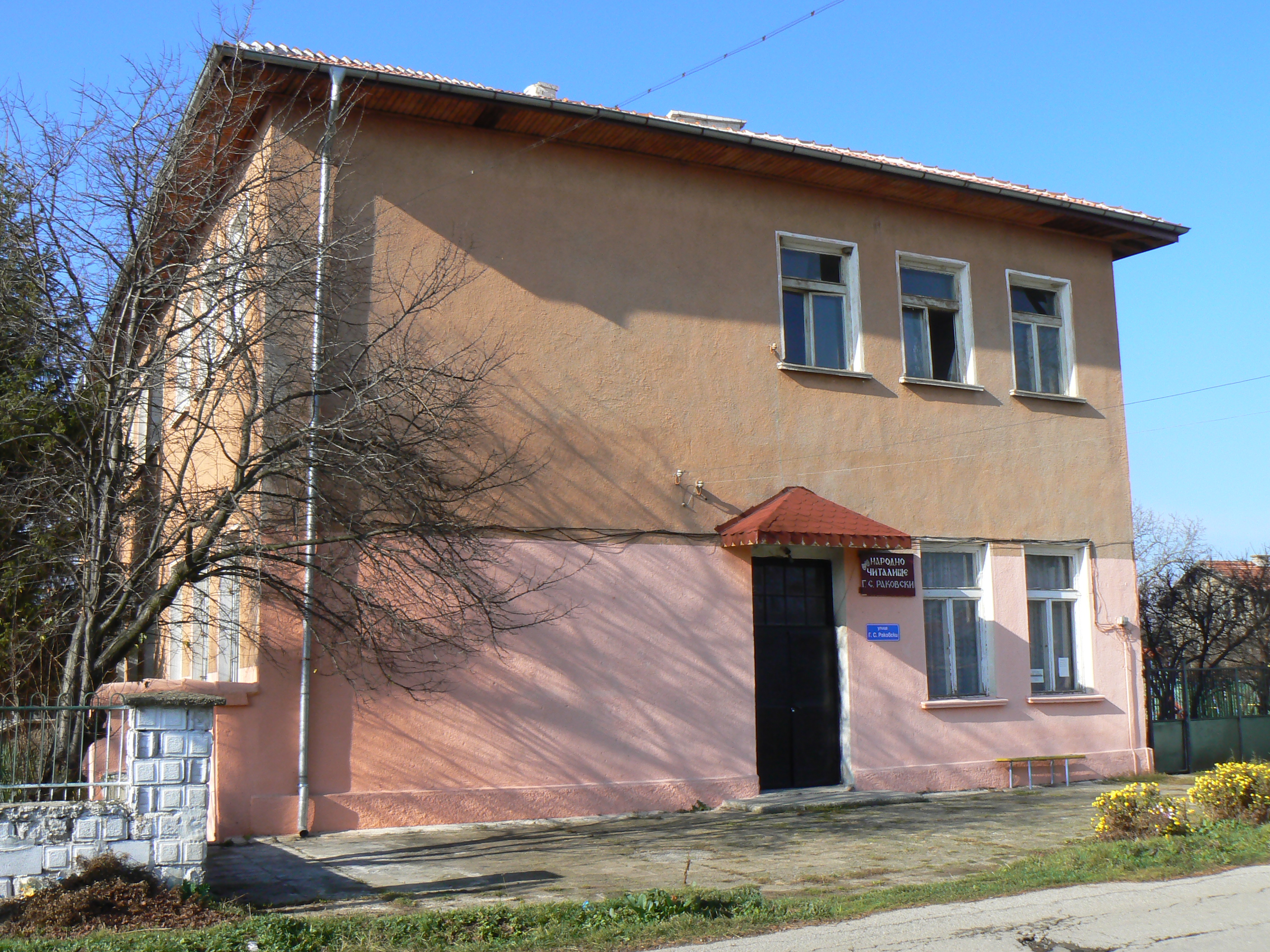 Library "Georgi Sava Rakovksi" in village Grigorevo, Bulgaria